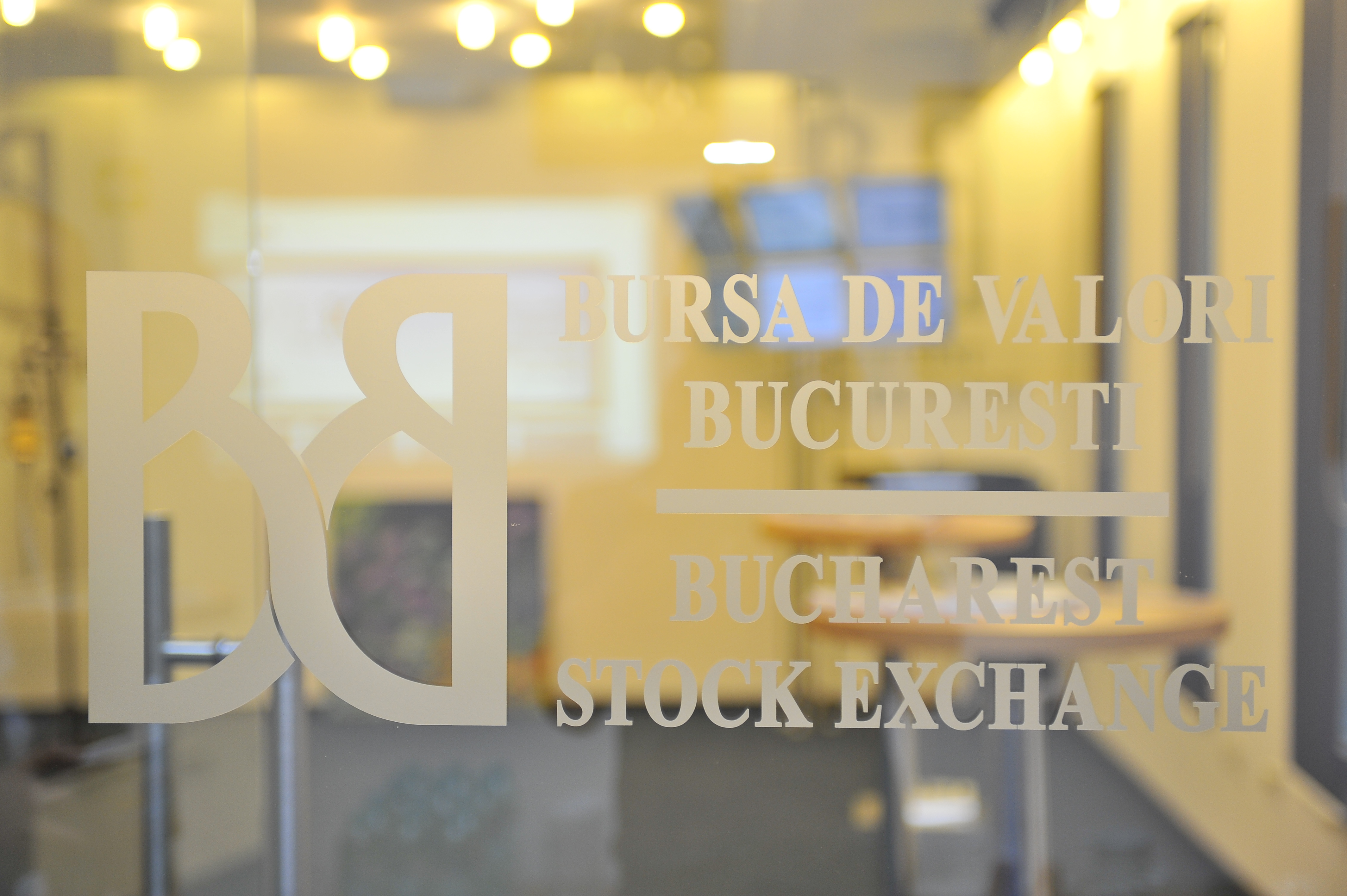 This is the picture of Bucharest Stock Exchange's office